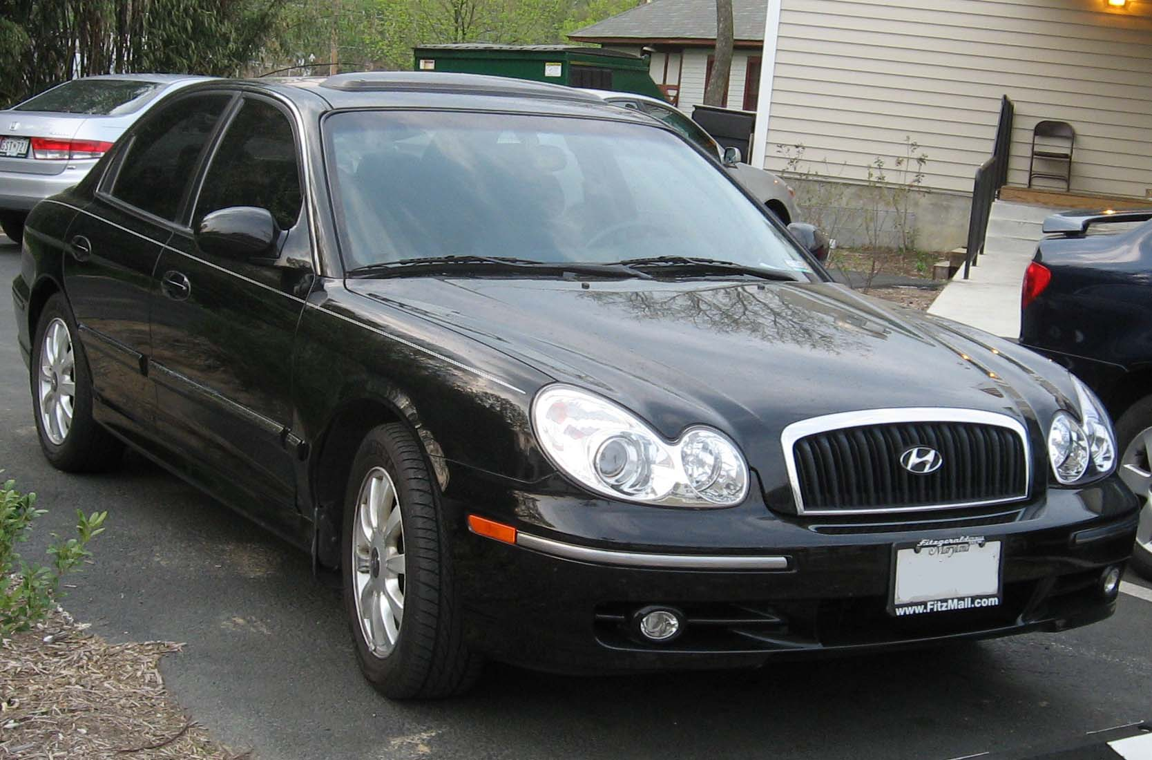 2002-2004 Hyundai Sonata photographed in USA.